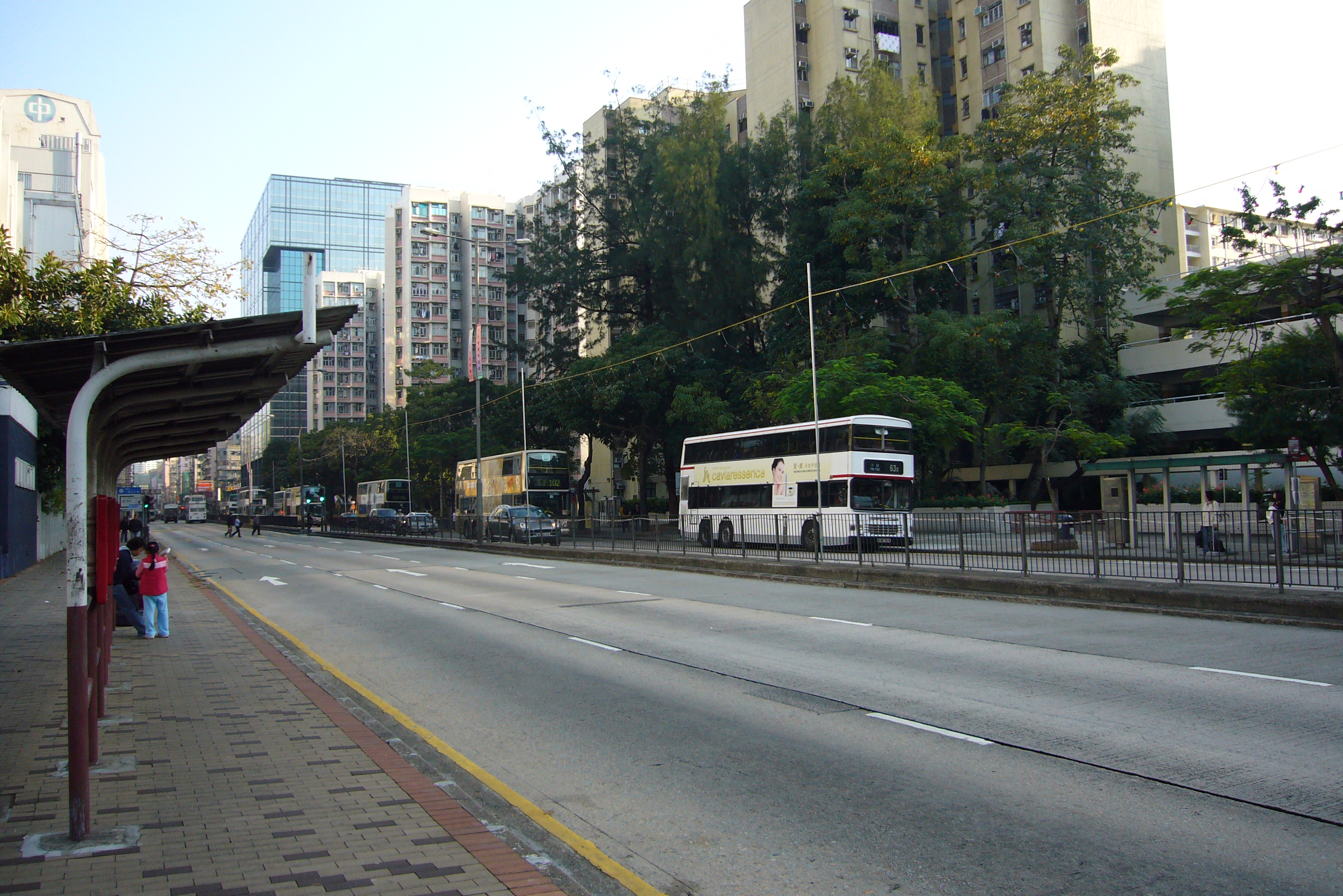 Cheung Sha Wan Road near Lai Kok Estate